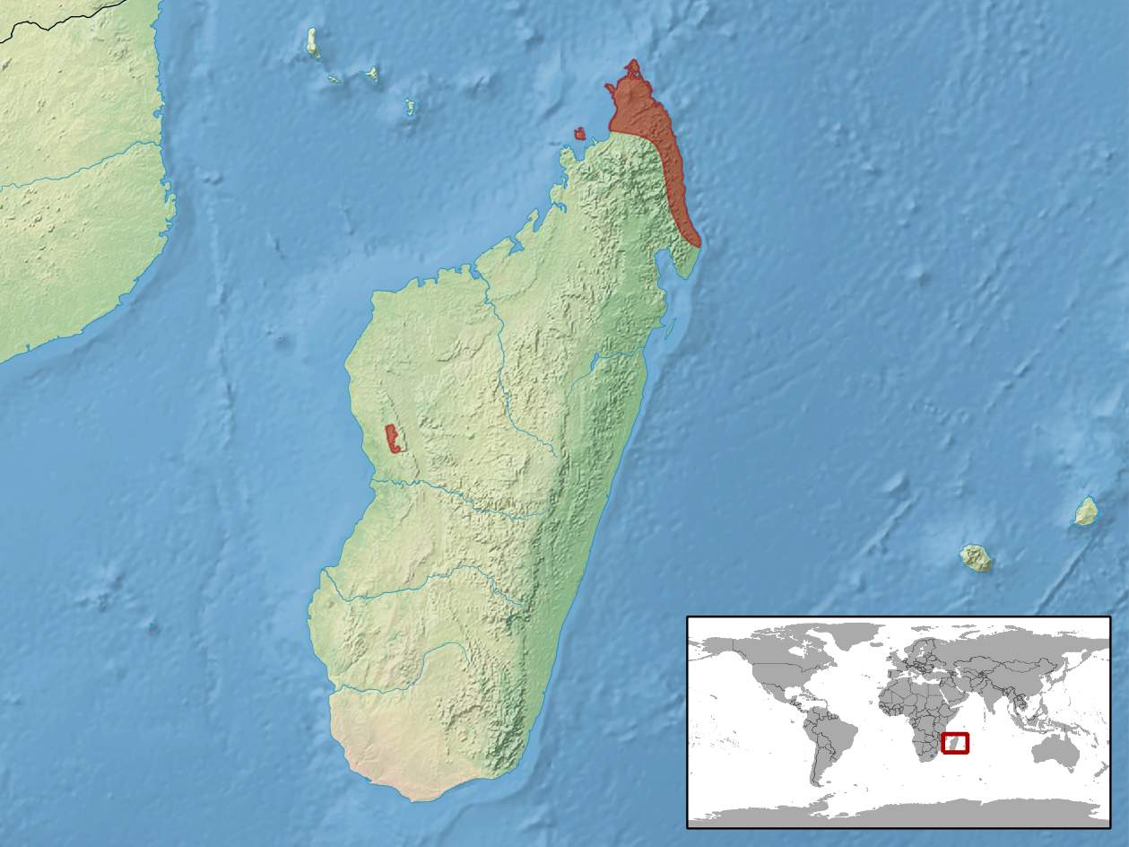 geographic distribution of Lygodactylus heterurus (Native: Madagascar)